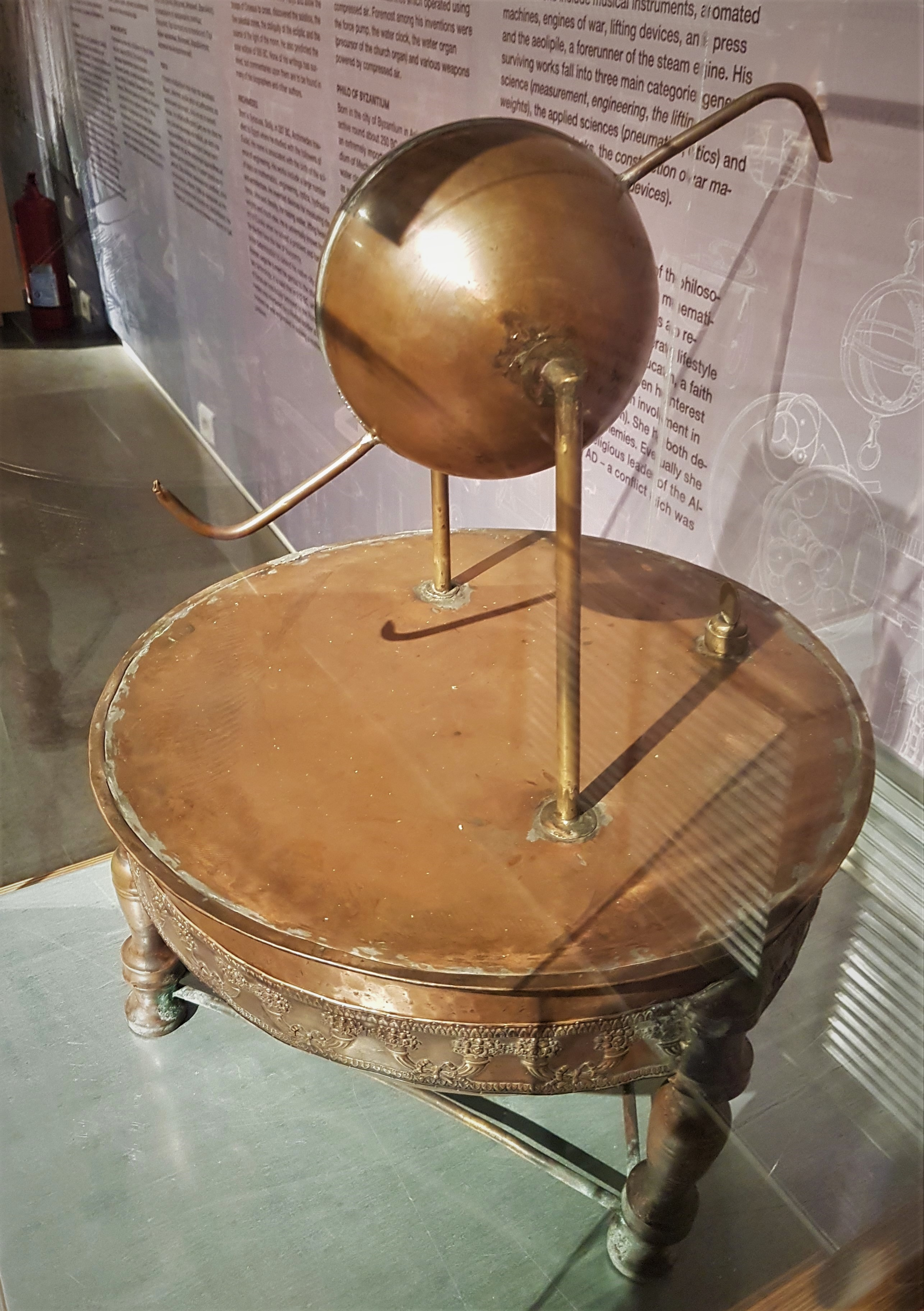 Hero's Aeolipile, 1st century AD, Alexandria (reconstruction). Thessaloniki Technology Museum